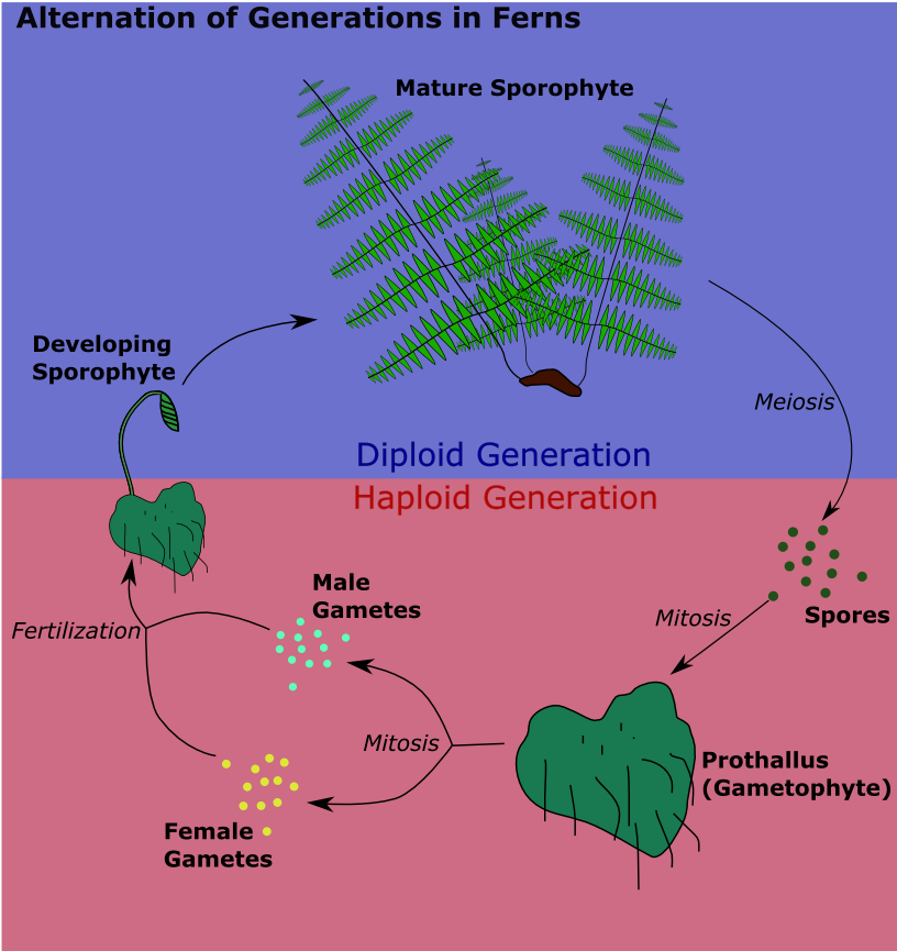 This is a diagram which demonstrates the biological concept of alternation of generations, specifically in ferns. This diagram is not to scale, nor is it necessarily anatomically accurate—it is designed as an aid in understanding the concept of alternation of gametophyte and sporophyte generations.